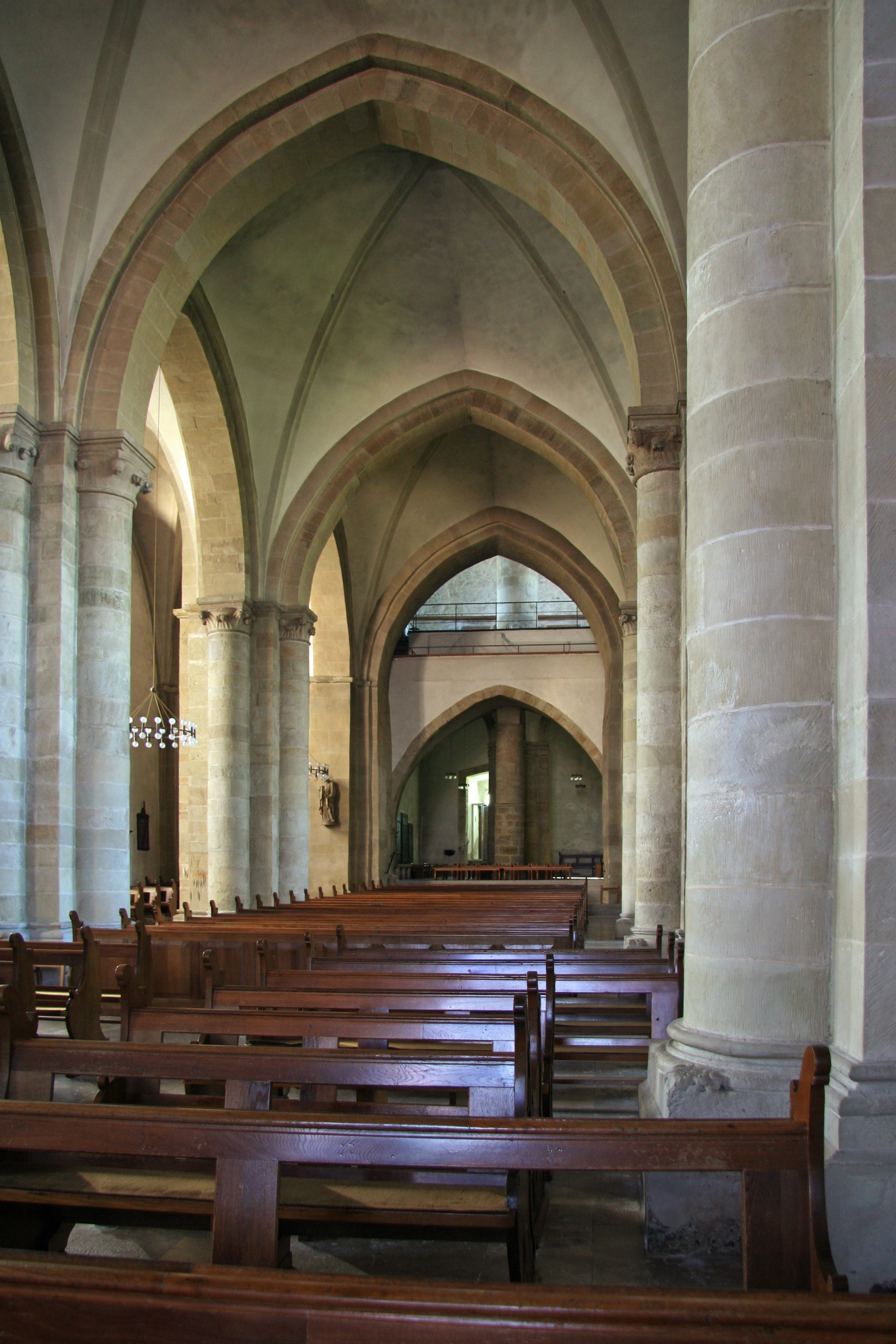 Look through the nave to the west of St. Peter and Andrew in Brilon